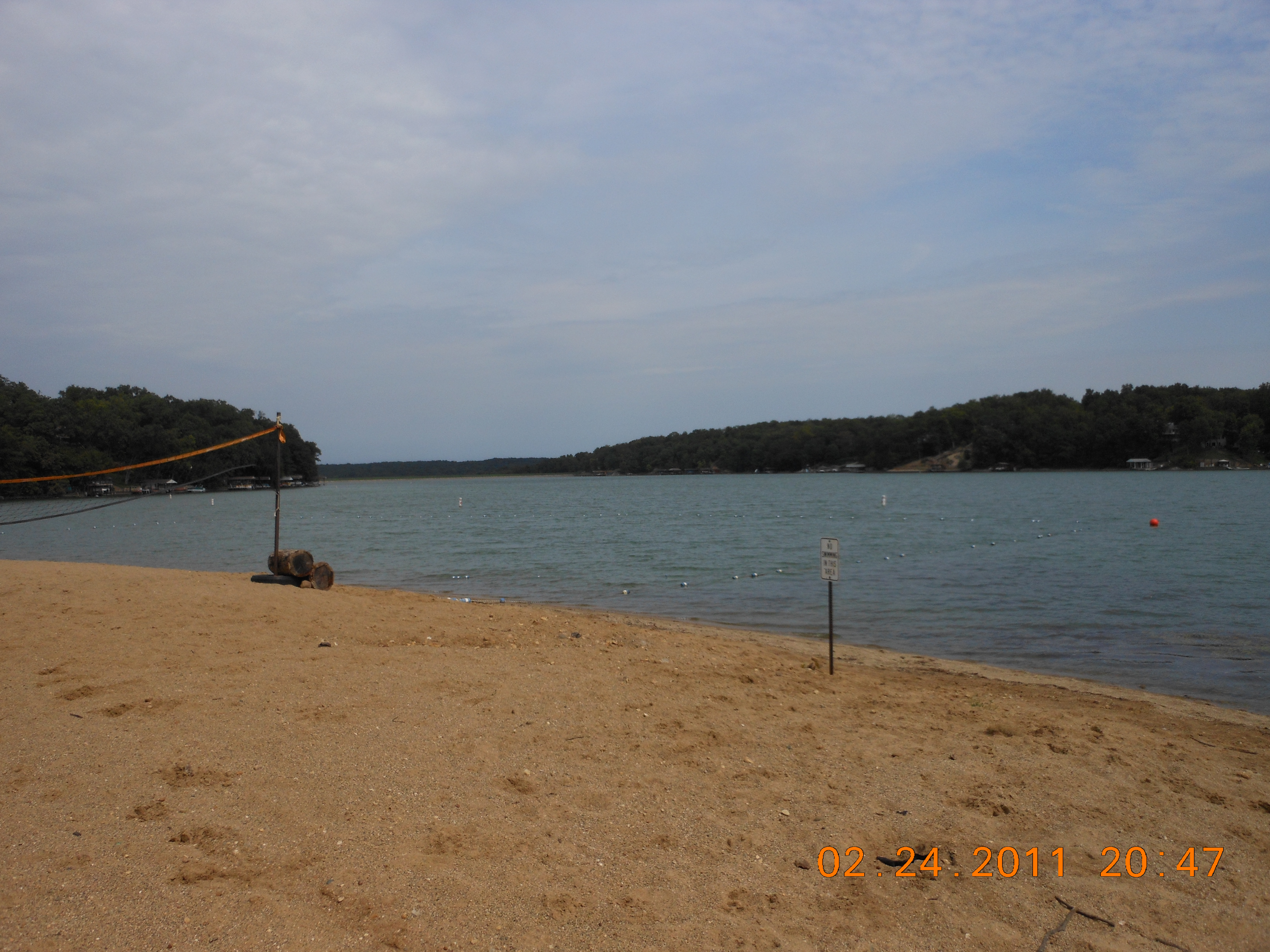 Beach on the Hopewell Township side of Lake Wildwood, Marshall County, IL 61375, USA